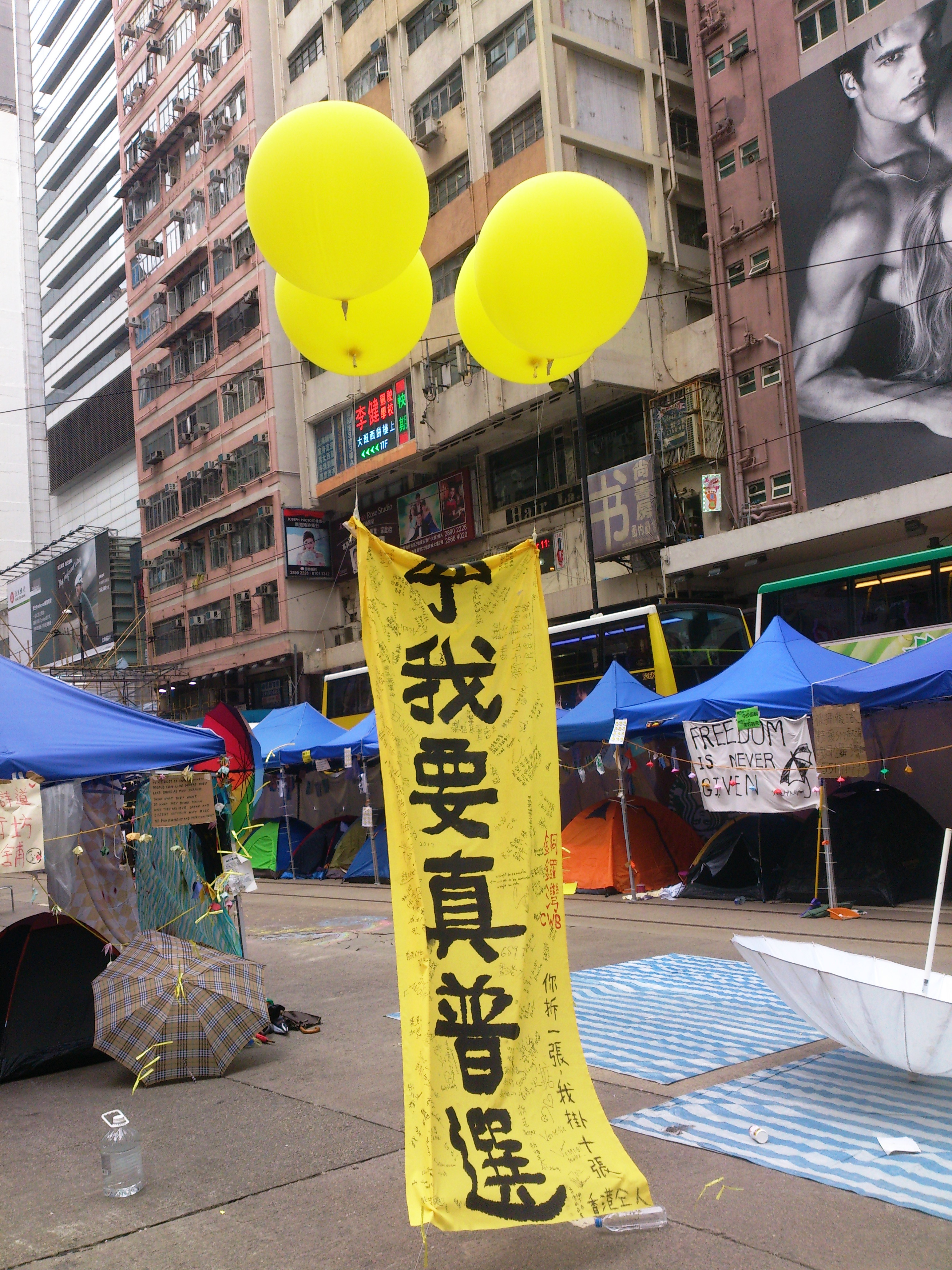 Umbrella Movement Banner 1 on Yee Wo Street on 2014-10-25